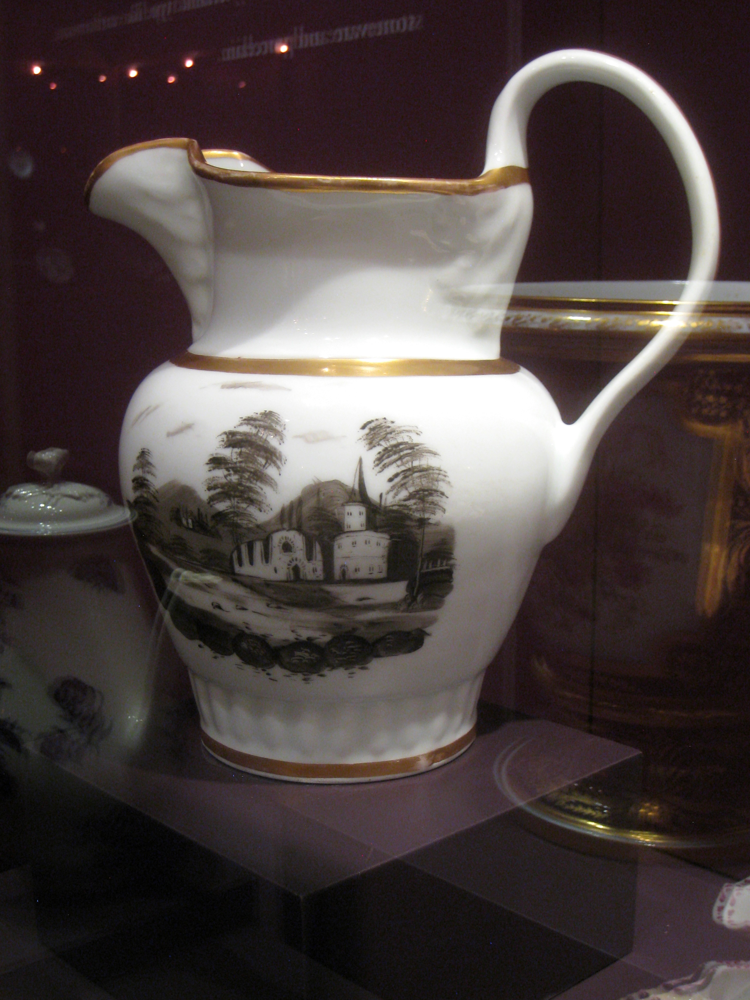 Pitcher, porcelain with polychrome enamel and gilt decoration; Tucker Porcelain Factory, Philadelphia, Pennsylvania, 1826-1838. Pottery exhibited in the DAR Museum, National Society Daughters of the American Revolution, 1776 D Street NW, Washington, DC, USA.